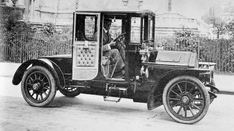 1907 Crossley 40 HP "Single Limousine" with designer Charles Jarrott, of the make's London agents Charles Jarrott & Letts Co. Coachbuilders Salmons & Son built this car for the Duke of Sutherland.